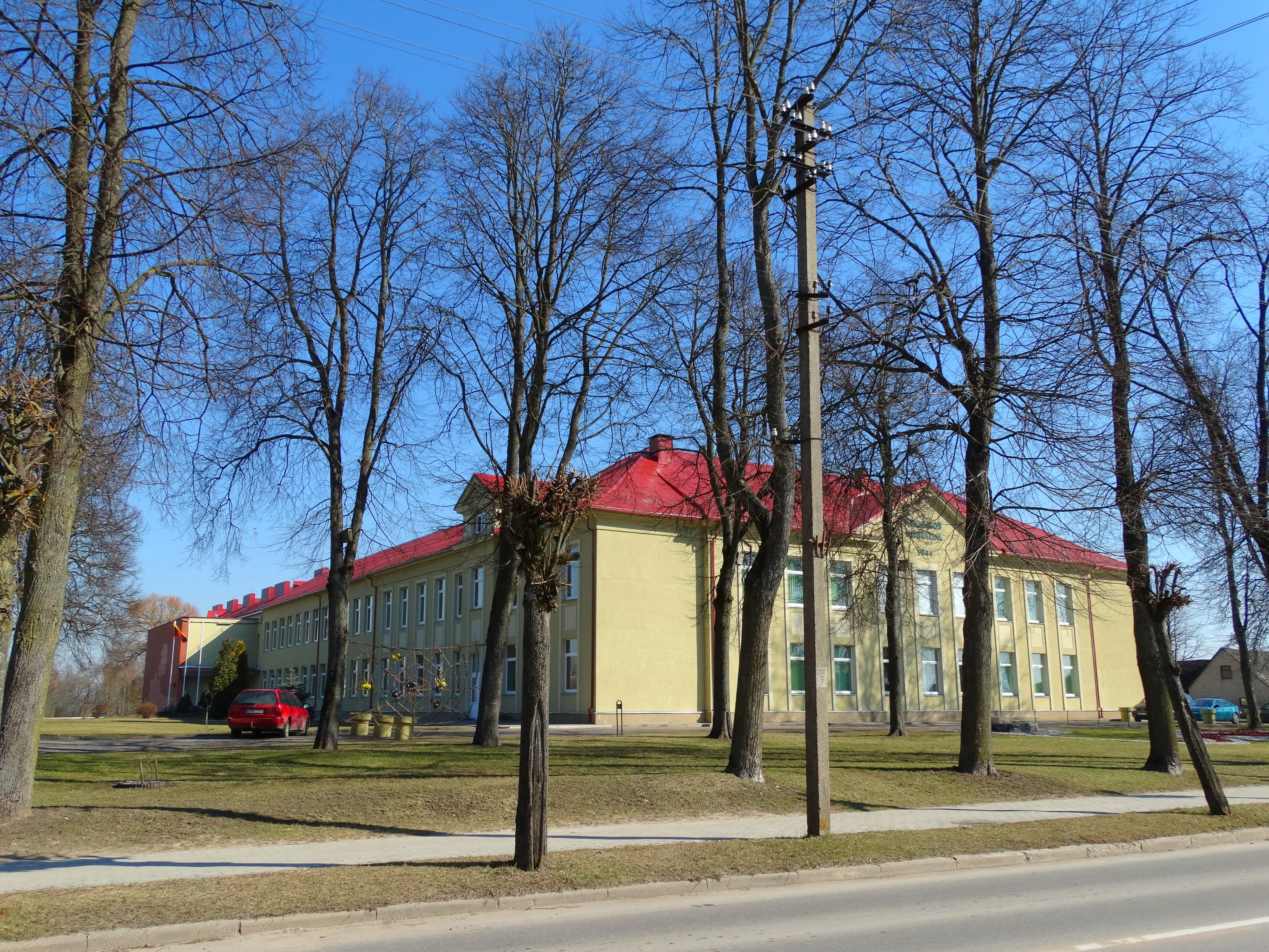 Gymnasium, Ariogala, Raseiniai district, Lithuania